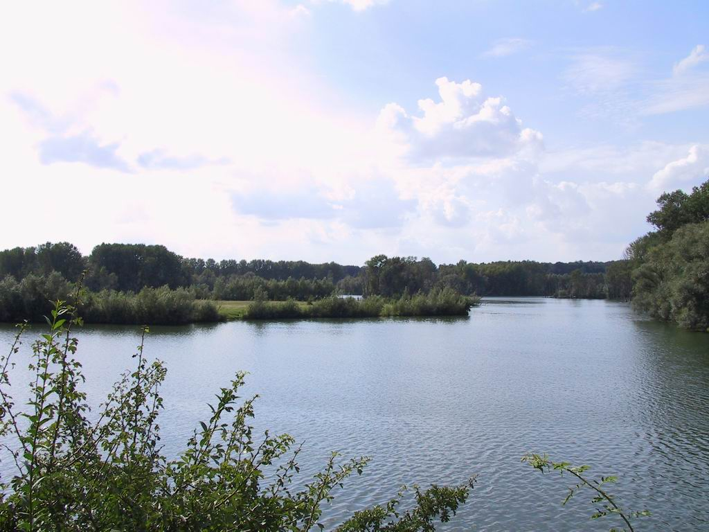 "Bislicher Insel" nature reserve with an old creek of the Rhine